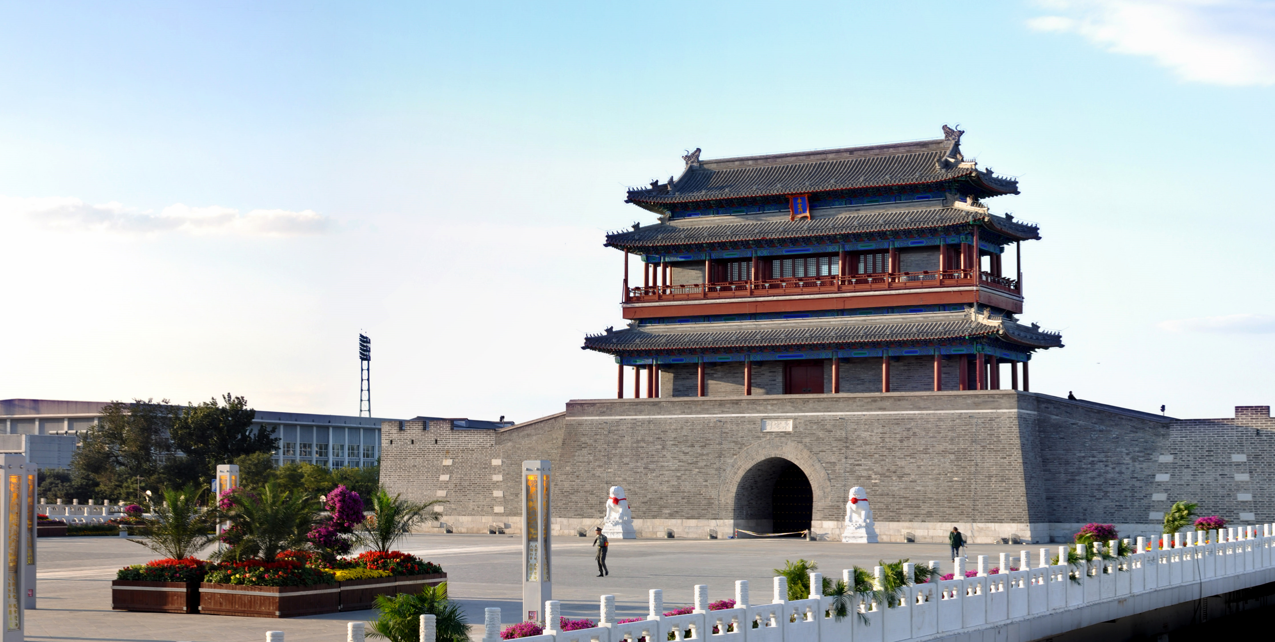 Yongdingmen and Yongdingmen square, Beijing. 中文（中国大陆）: 北京永定门及永定门南广场